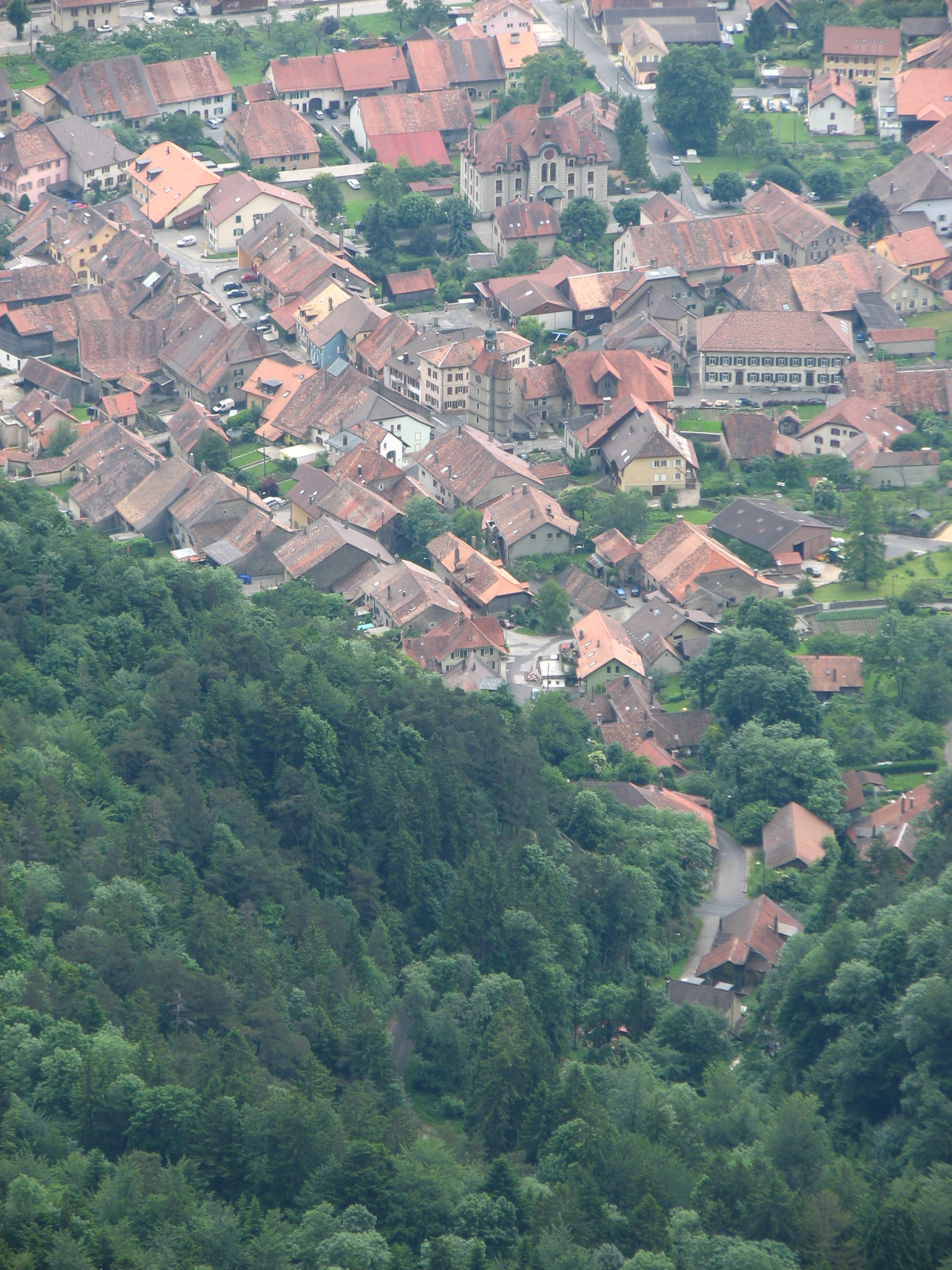 View of Baulmes, Vaud, Switzerland from the hill